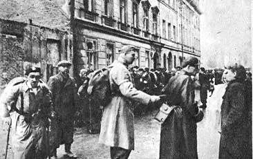 Warsaw Uprising: major Eugeniusz Konopacki "Trzaska", commander of "Wigry" Battalion, with his soldiers prepares for exiting the city into German prison camps. Photo from Jasna Street between Świętokrzyska street and Dąbrowskiego Square. (Today's look and merge of both)